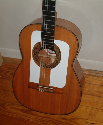 Flamenco Guitar Pickguard Pick Guard Tap Plates Plate